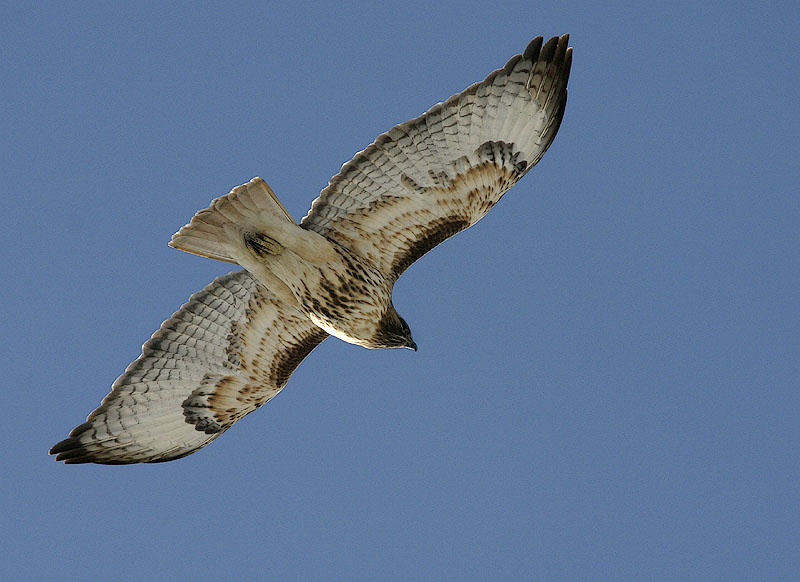 Picture of a Red-tailed Hawk released under GNU Free Documentation License, Version 1.2 or any later version published by the Free Software Foundation. Found here.